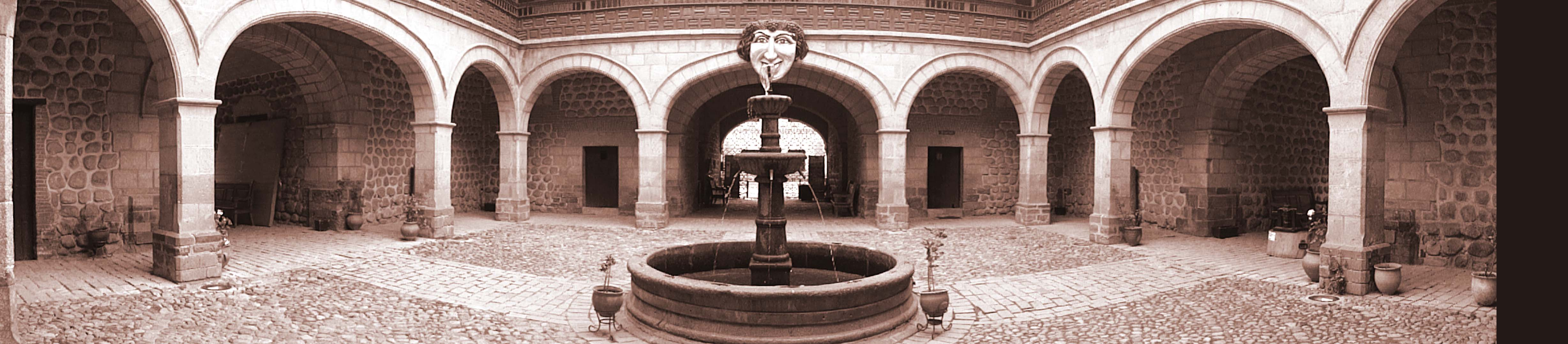 Primer patio de la Casa de la Moneda en Potosí, Bolivia.